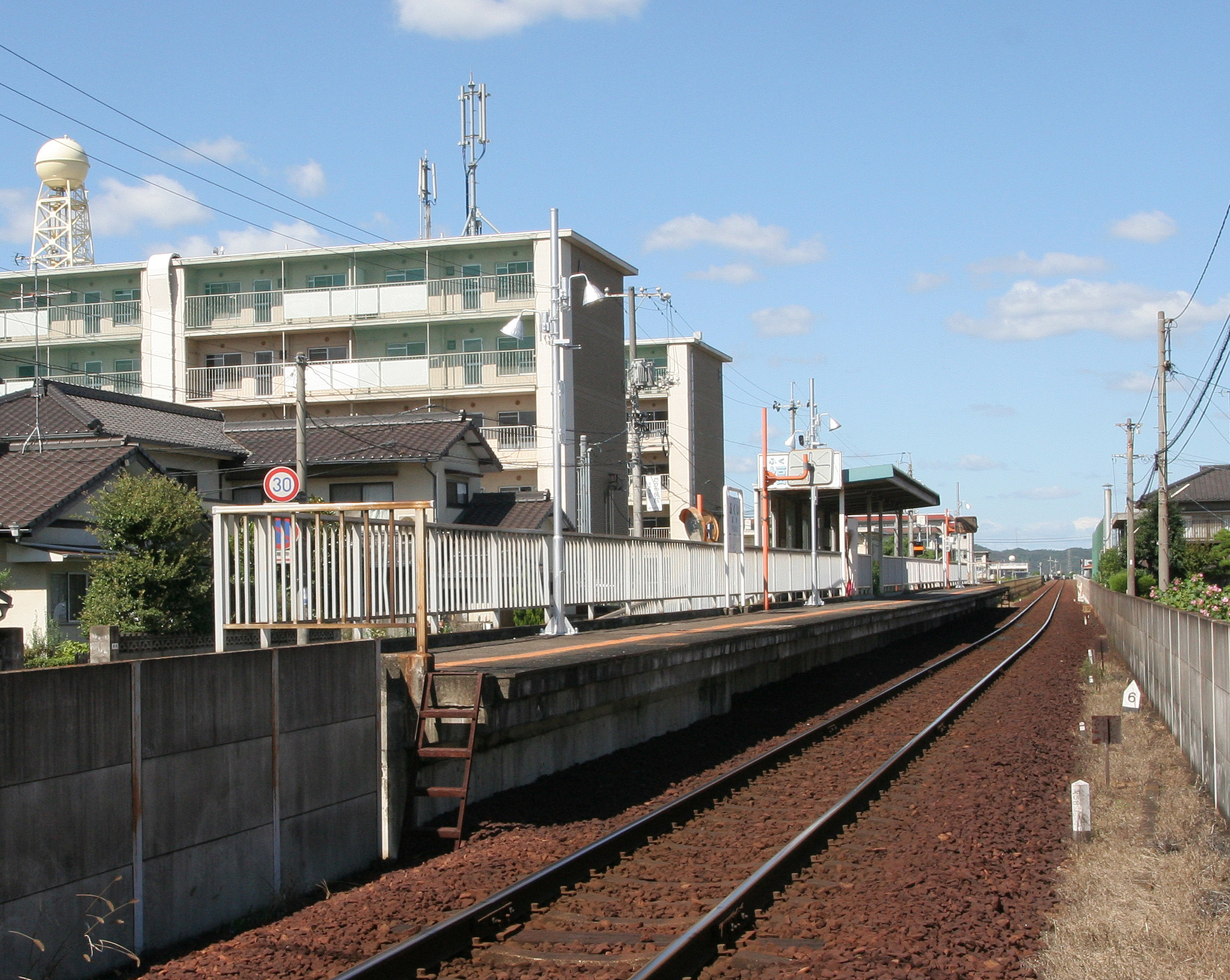 Mizushima Rinkai Railway Mizushima Main Line Fukui Station enclosure